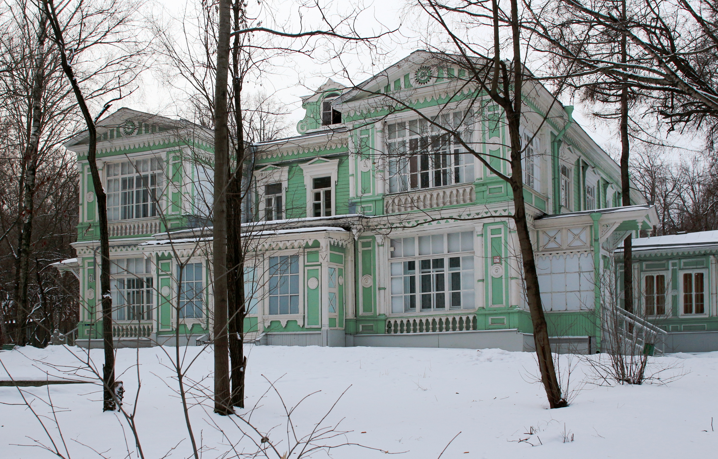 The Lyamin House in Sokolniki park